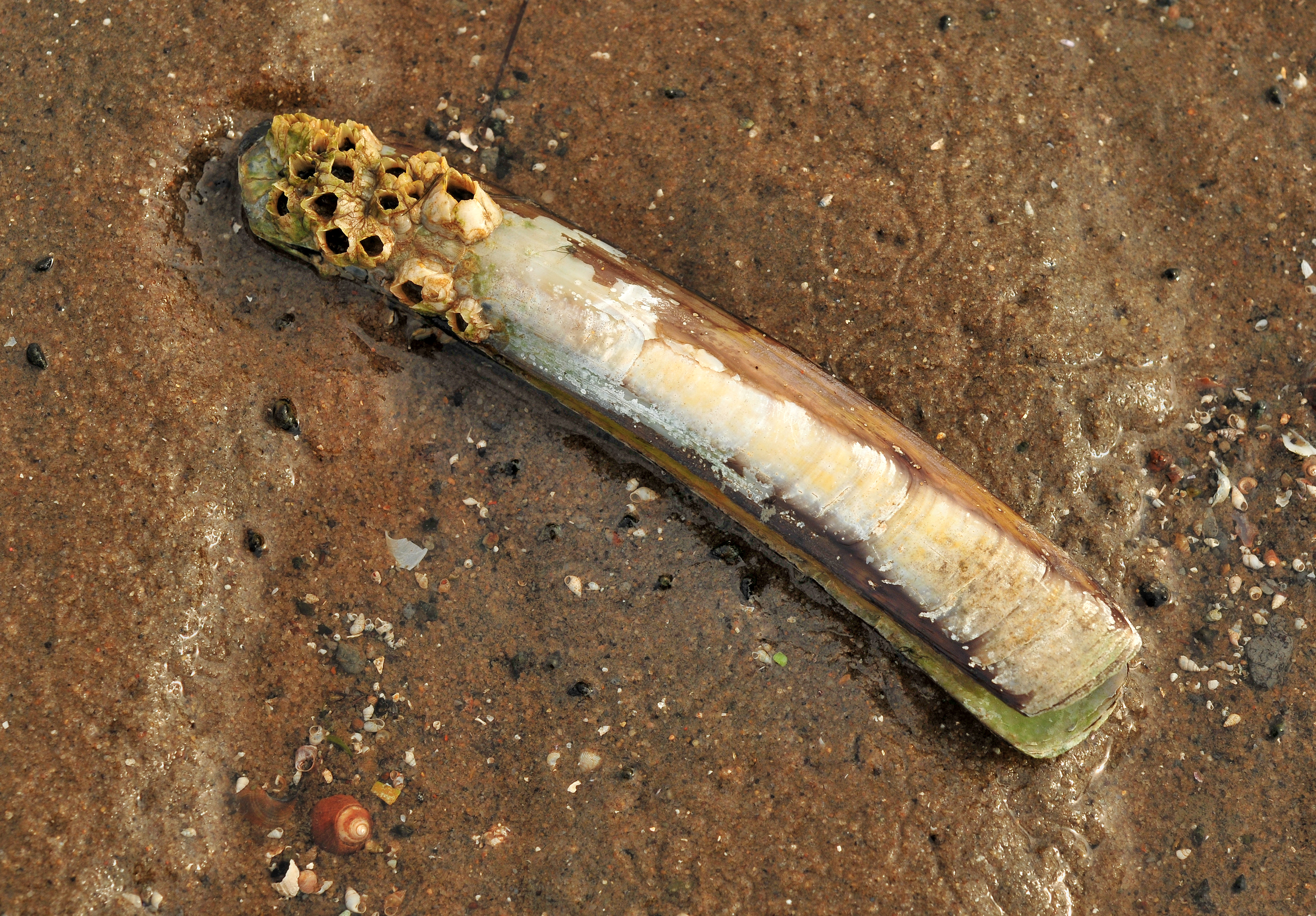 sword razor with Balanus crenatus on the razor, found in the Mudflat by the Schleswig-Holstein Wadden Sea National Park nearby Kampen, Sylt, Germany.